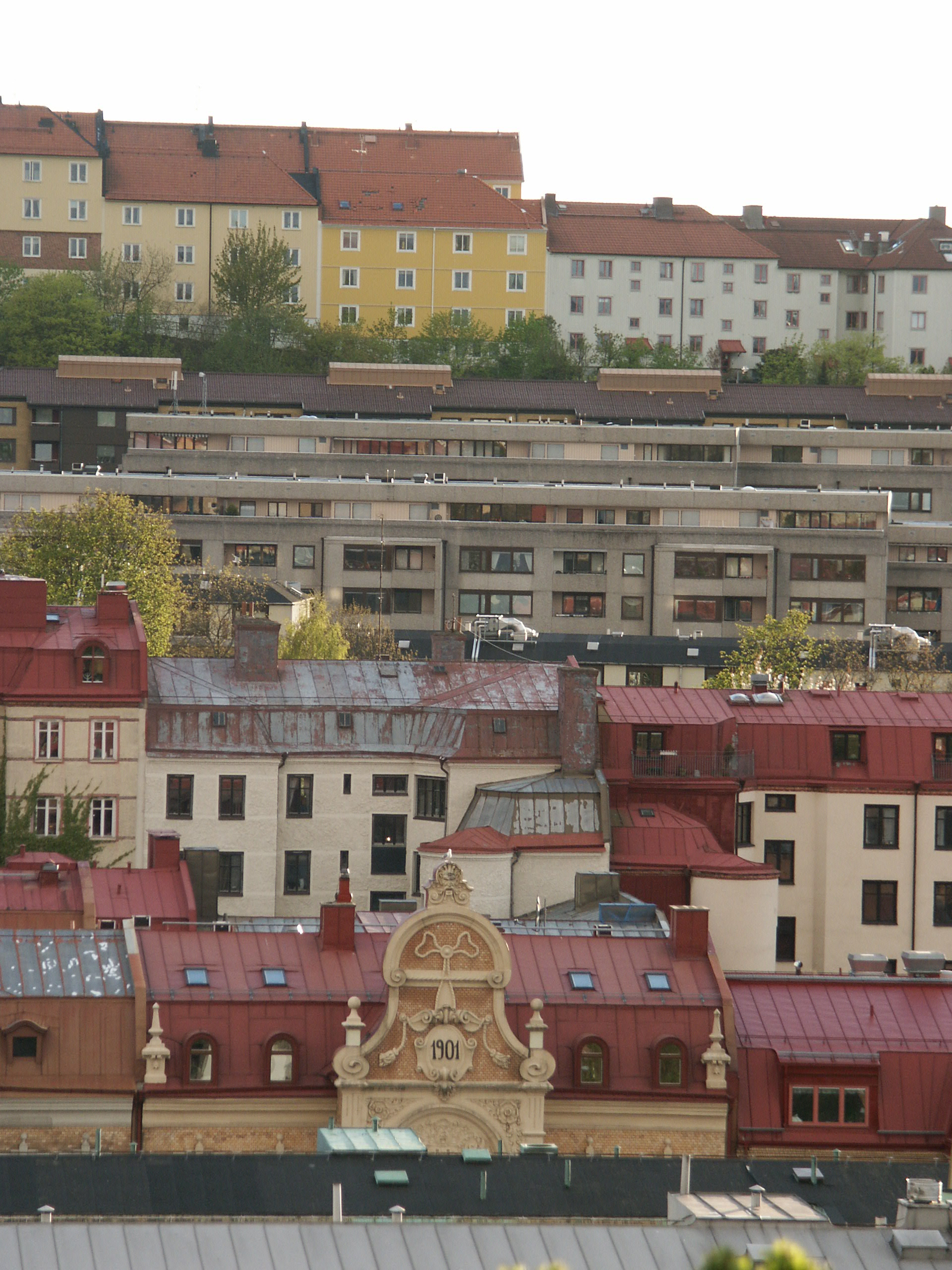 Layers of architecture in Gothenburg